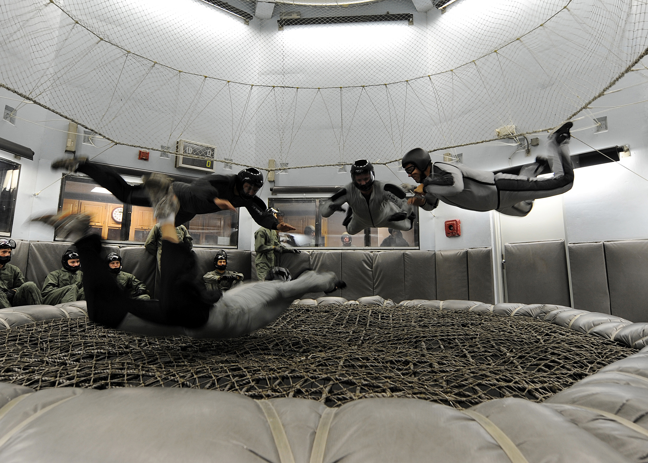 FORT BRAGG, N.C. (June 7, 2009) Military freefall instructors from Special Boat Team (SBT) 20 demonstrate body positions during freefall training at the Matos Military Freefall Training Facility at Fort Bragg, N.C. SBT-20 is conducting this training for junior personnel as a precursor for military freefall school. (U.S. Navy Photo by Mass Communication Specialist 2nd Class Gary L. Johnson III/Released)